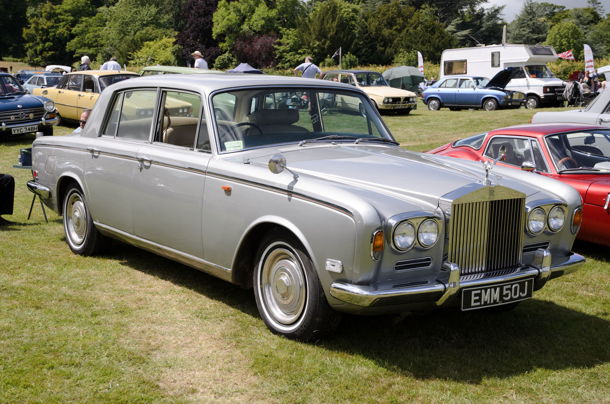 Bodelwyddan Classic Car Show 19/07/2015